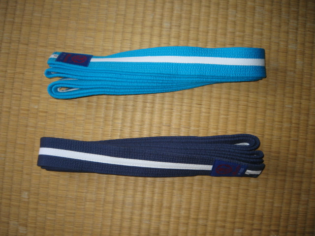 judo belt for womens in kodokan judo